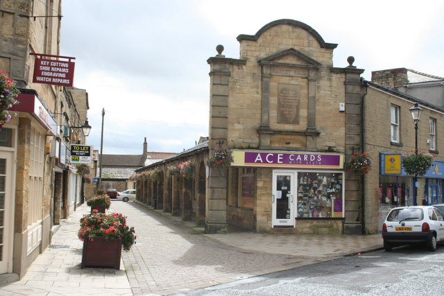 Wetherby Market Hall. Turn around from 232474 and you're facing Wetherby Market Hall.